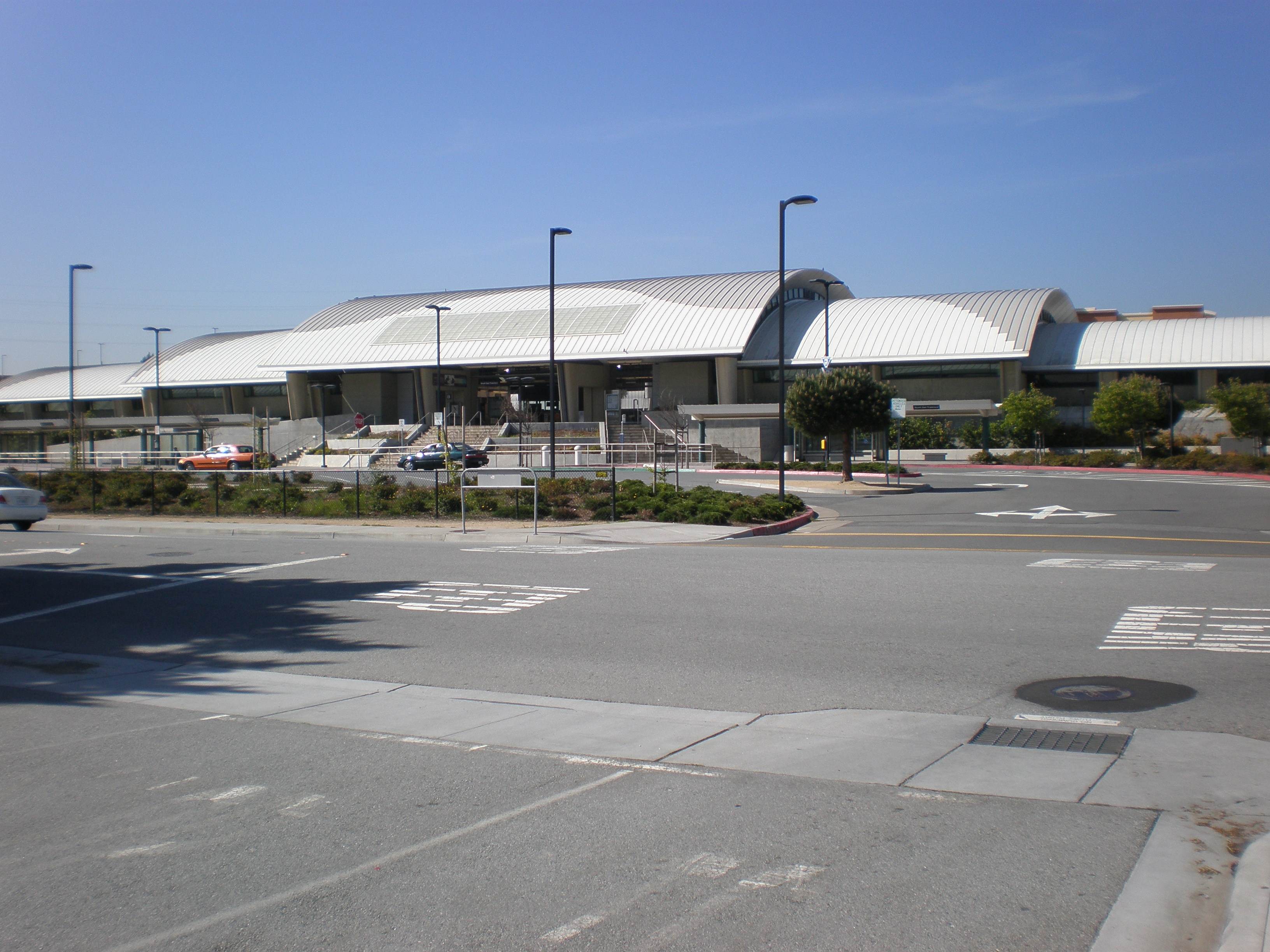 The eastern side of the South San Francisco BART station in South San Francisco, California.